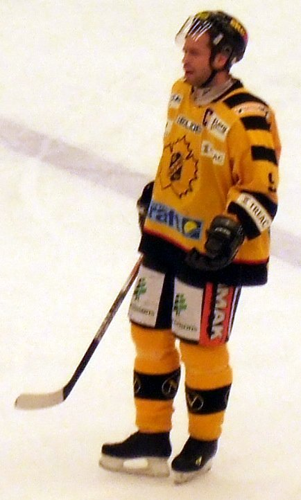 Ice hockey player Magnus Wernblom of Skellefteå AIK in E.ON Arena, Timrå, Sweden during the Swedish Elite League game Timrå IK-Skellefteå AIK (1-2).